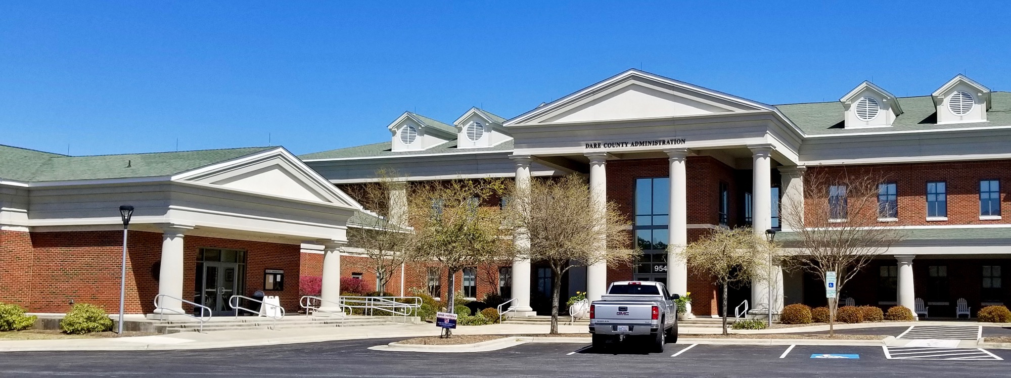 Dare County Courthouse, photo by John Stanton 5 Apr 2018